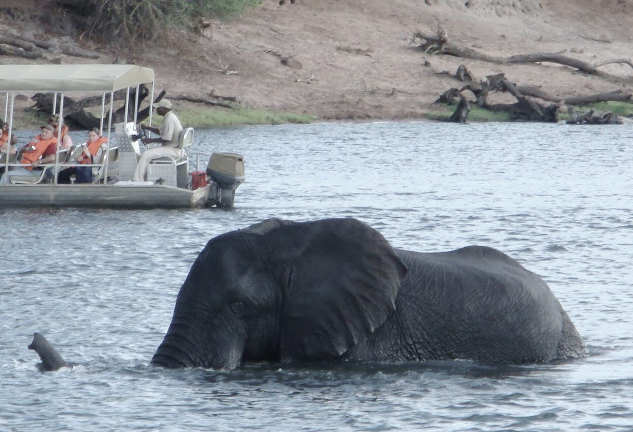 Like all mammals (except humans and apes, who have to learn how to swim), elephants are very good, untiring swimmers. Elephants move all four legs to swim and are able to move quite fast like that. Their big body provides enough flotation while the trunk acts like a snorkel. [